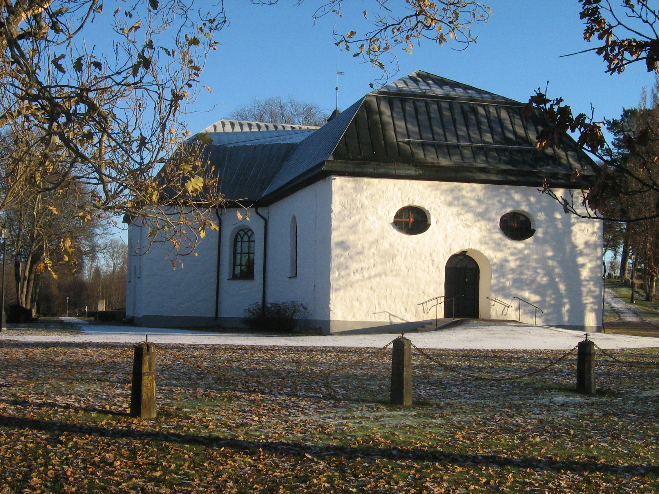 The parish church of Nedre Ullerud, Värmland, Sweden